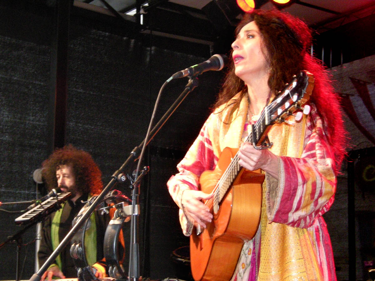 Singer, songwriter and actor Timna Brauer with husband Elias Meiri performing "Songs from Jerusalem" at Vienna's 25th annual "Stadtfest".